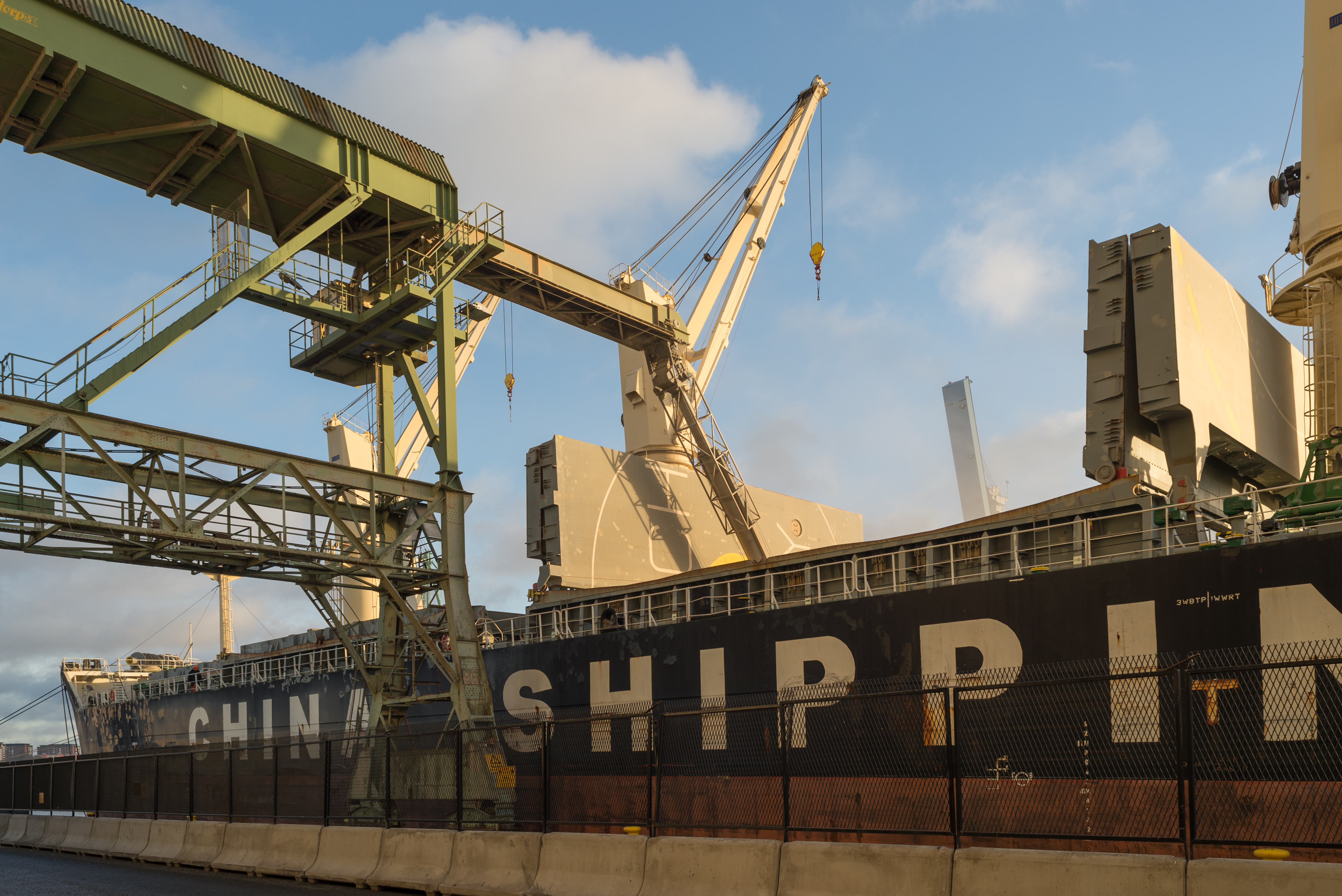 Bulk Carrier Qing Feng Ling loading cereal in Stockholm habour (Värtahamnen).